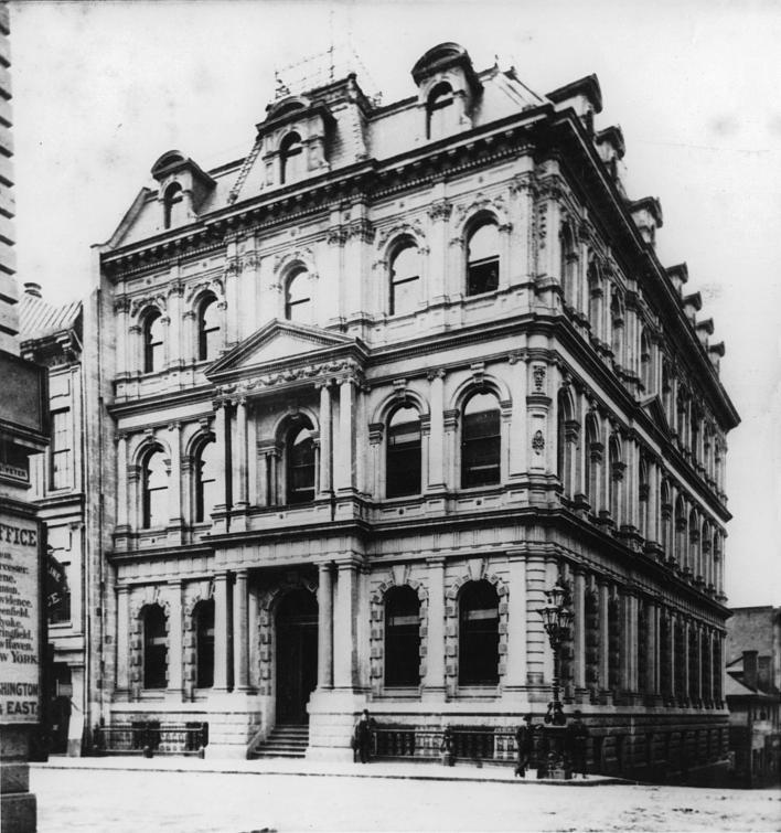 Photograph, Merchant's Bank, St. James Street, Montreal, QC, 1870-75 - Anonymous - Silver salts on paper mounted on card - Albumen process - 10 x 17 cm